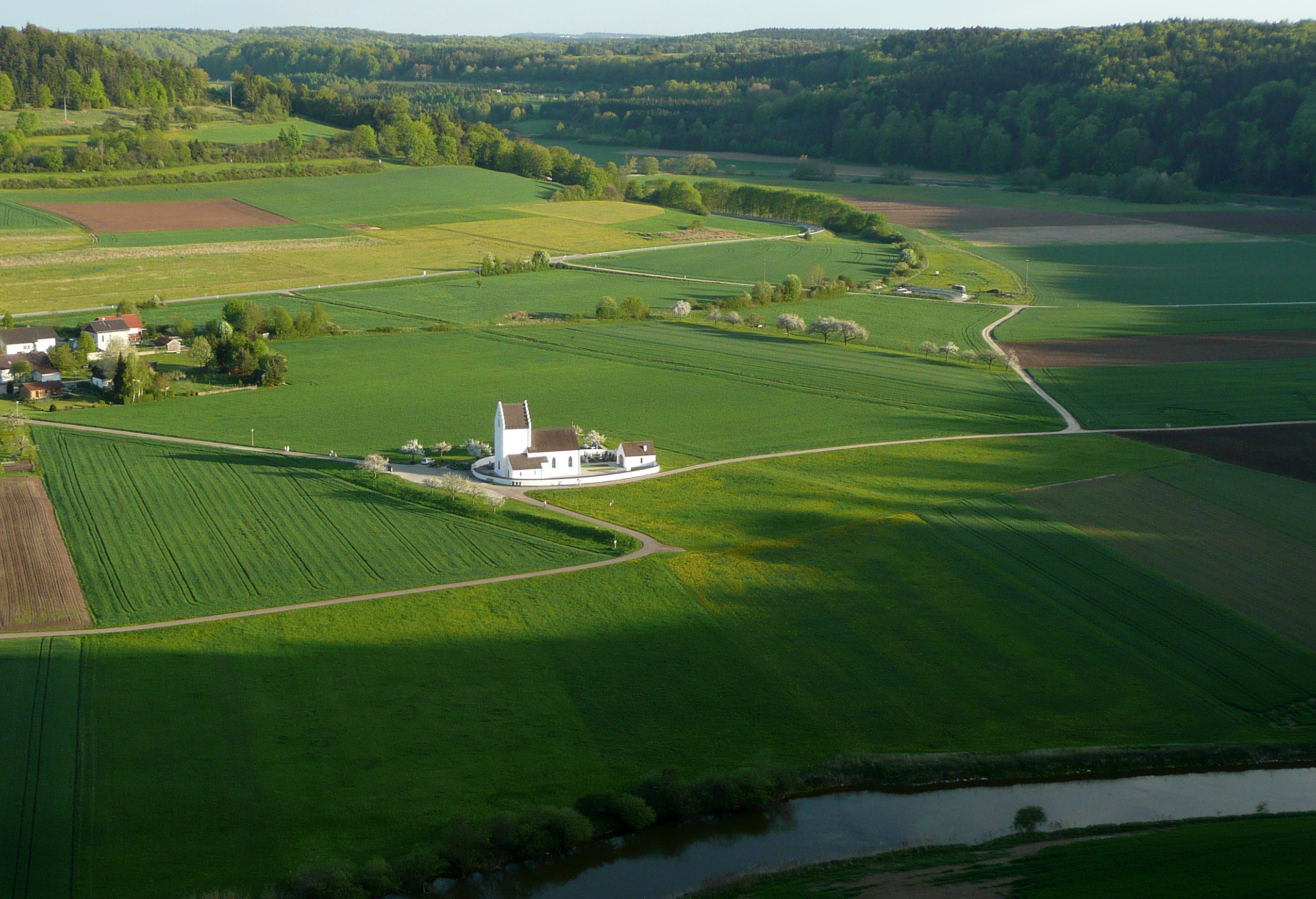 The church John the Baptist in Böhming near Kipfenberg in the Altmühl valley located within the district of the ancient Roman castle seen from N. This is a photograph of an archaeological site. This is a photograph of an architectural monument.